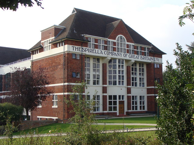 Spirella Building A view of this magnificent former corset factory, now a base for small businesses. To me this restoration shows how a great old building can be retained in all its glory, sympathetically modernised inside with high quality design, and thus serve a useful purpose in the twenty-first century.